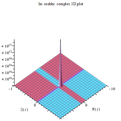 Coshc Im complex 3D plot